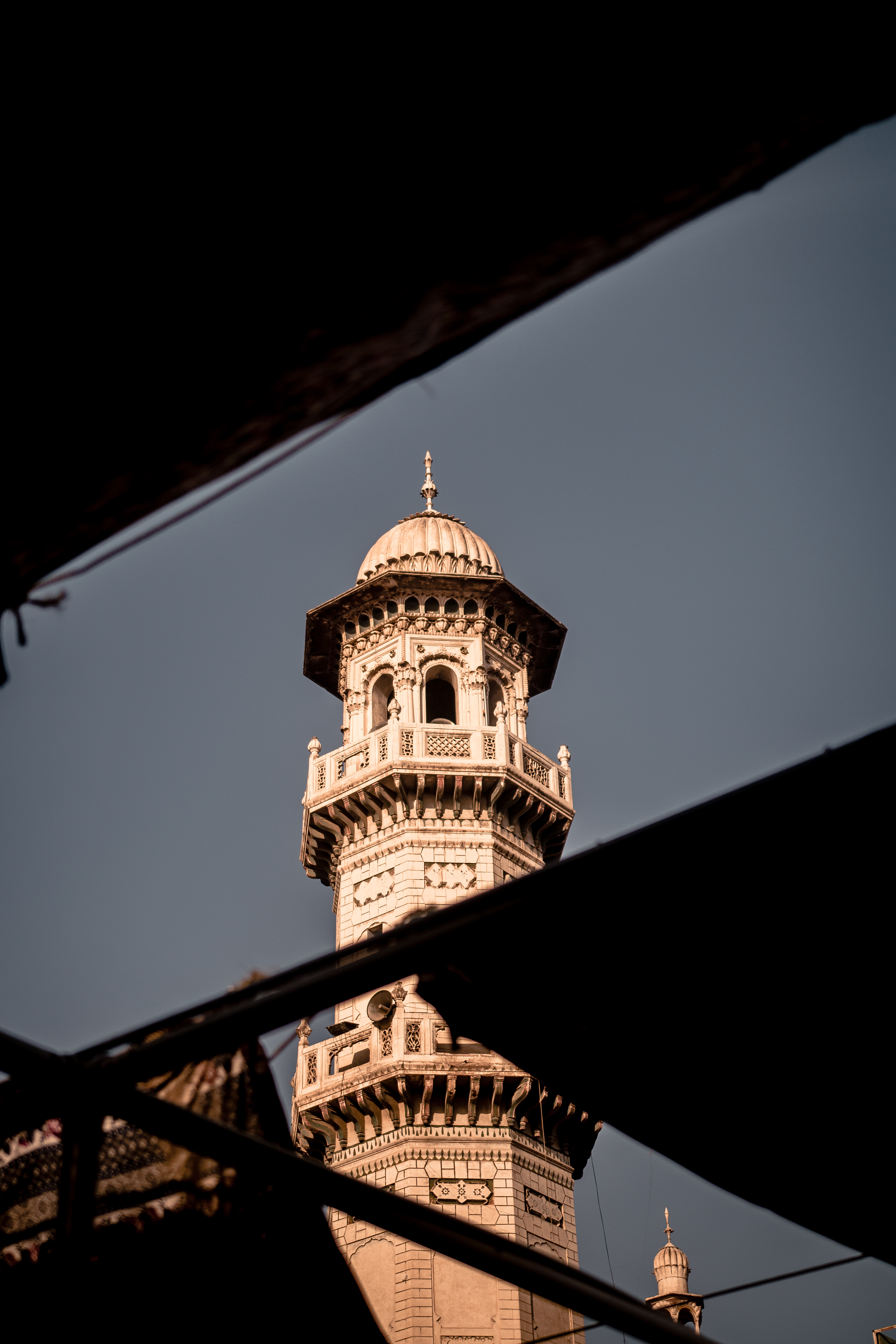 Minar of Mohabat Khan mosque